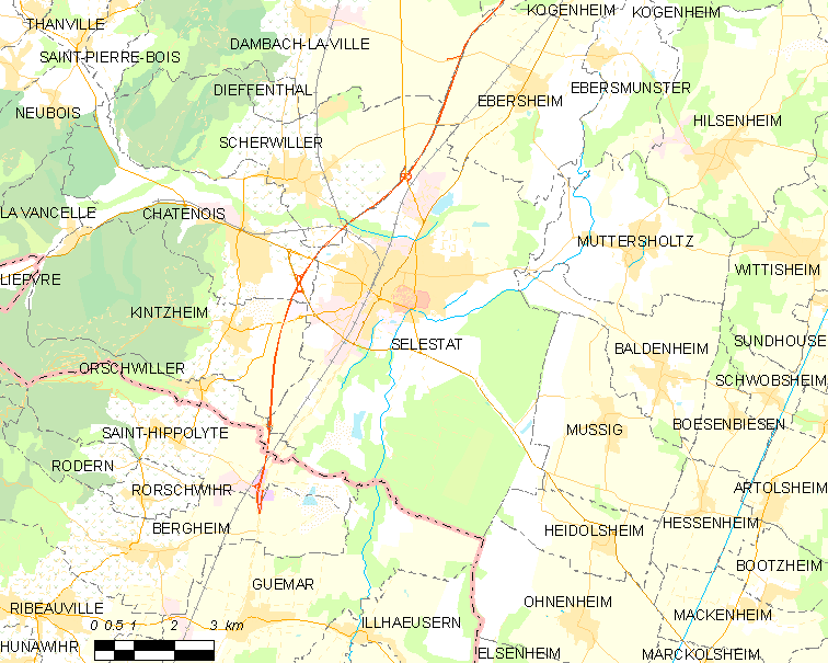 Map of French municipality